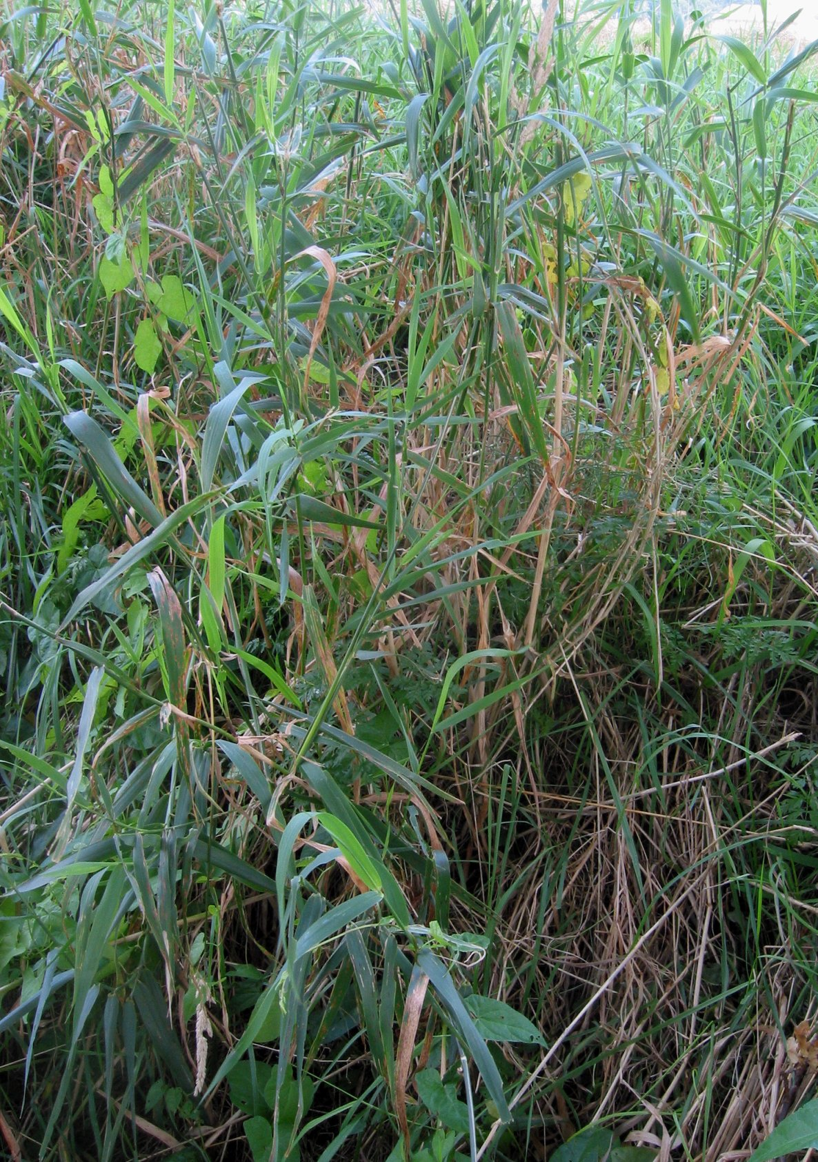 (nl: Rietgras planten) Phalaris arundinacea